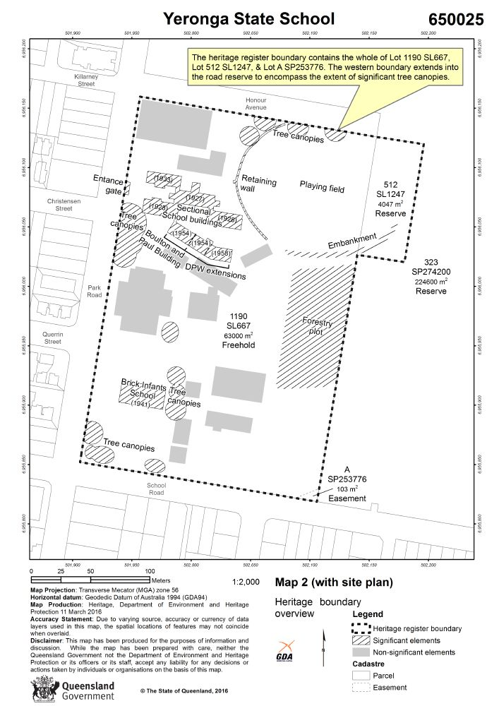 650025 Yeronga State School - Map 2 (EHP, 2016)